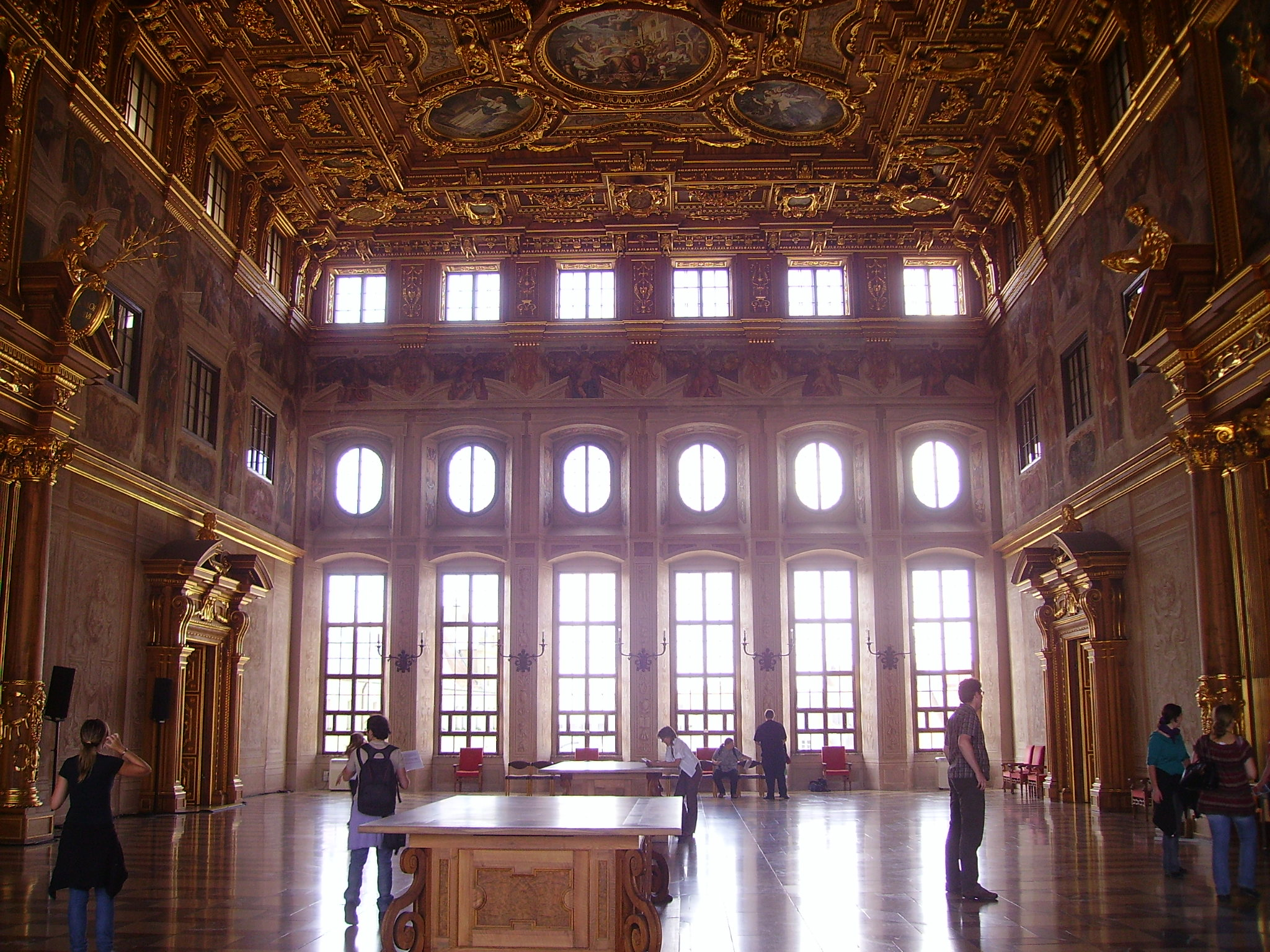 Golden Hall of the City Hall, Augsburg